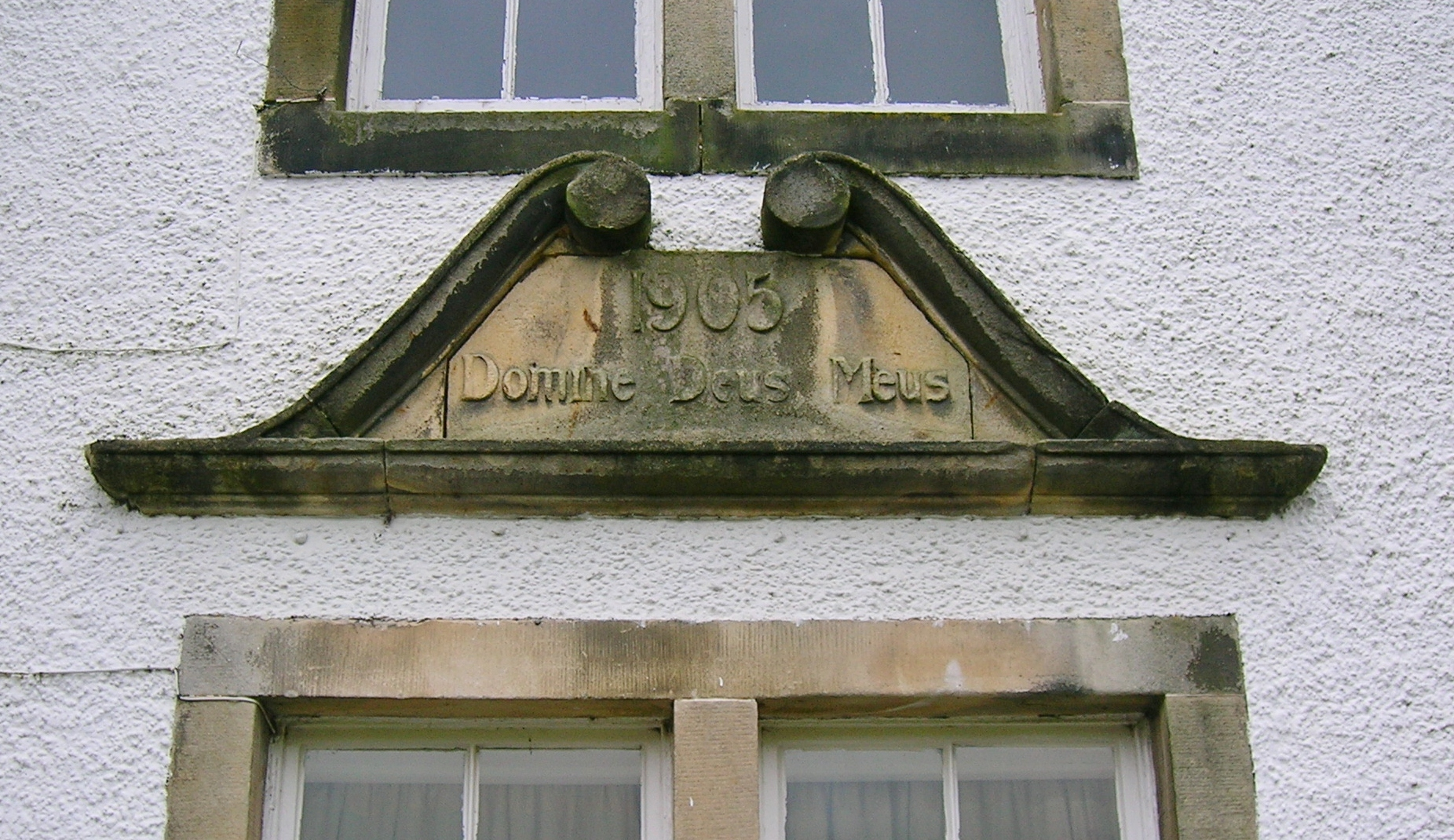 Domine Deus meus (Lord My God) 1905 - the date of the building of this new wing. Monkredding, Kilwinning, North Ayrshire, Scotland.